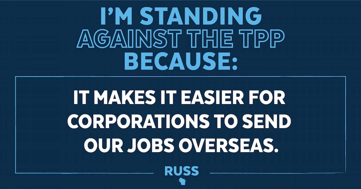 Russ Feingold